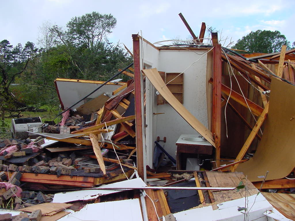 This house has been completely destroyed by a tornado, save a few interior walls. This shows that an interior room on the lowest floor of a house is by far the safest place to be during a tornado.